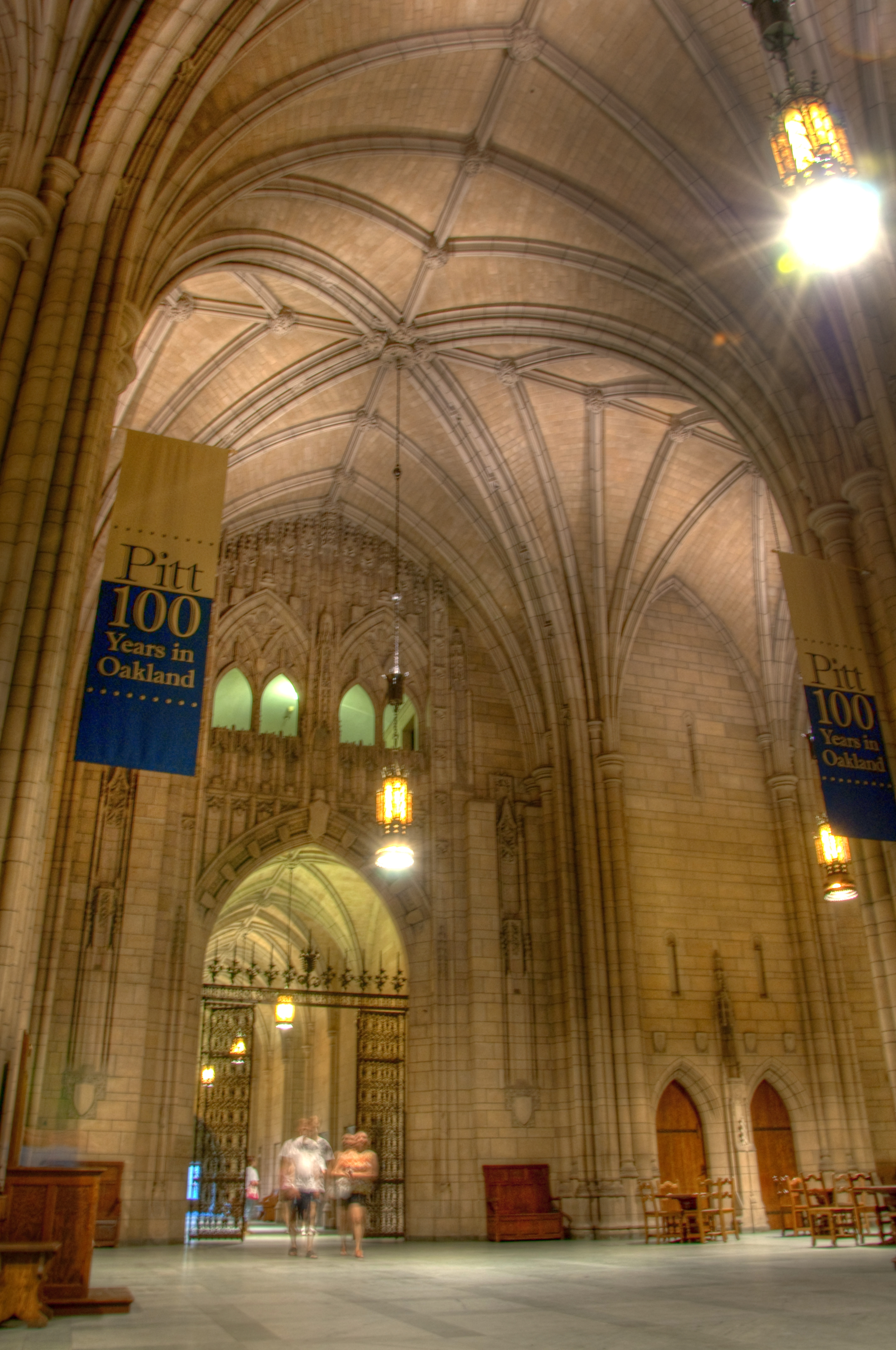 Hasty indoor shots. Will remember to bring tripod next time.